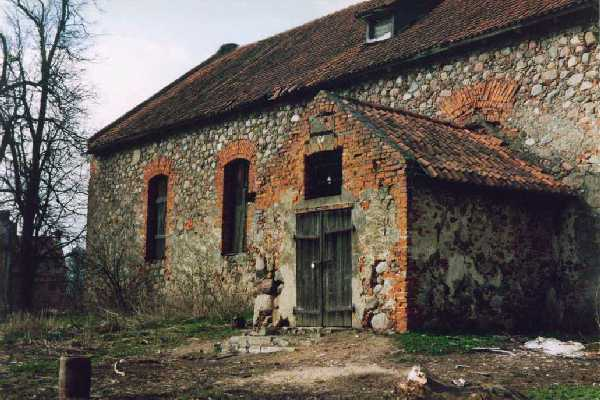 The former church in Vesnovo (Kussen) in 1992